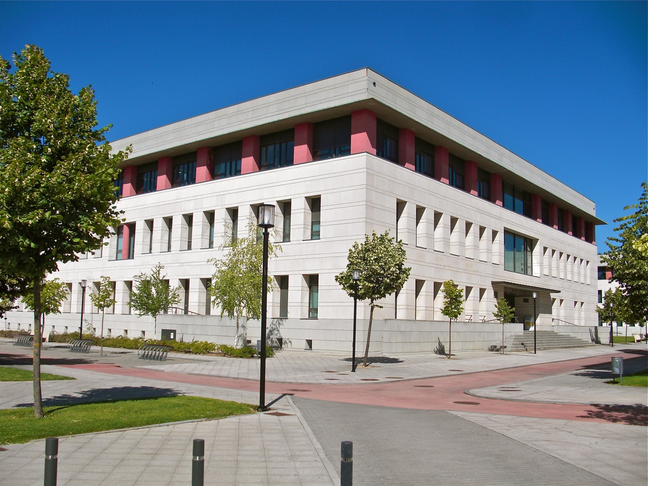 UBU's main library, one of five libraries